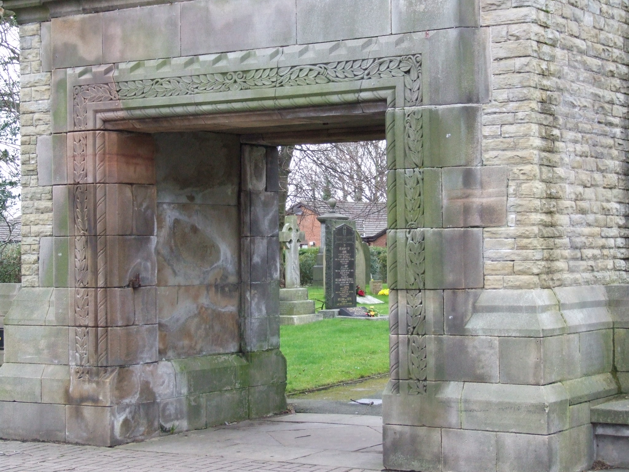 Heaton Mersey is situated on the A5145 in Stockport, north of the River Mersey, above the flood plain. St John's lych gate. - OpenStreetMap(Info)